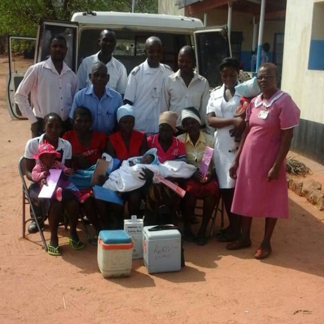 Immunisation outreach